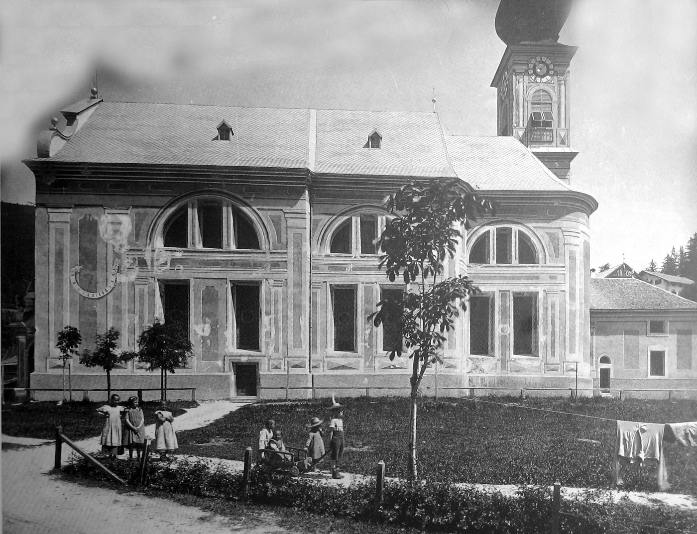 The Parish church of St. Ulrich in Gröden-Ortisei build in the late 18th century.Foto by Alois Kostner b. (May 8, 1856 - May 29,1918)